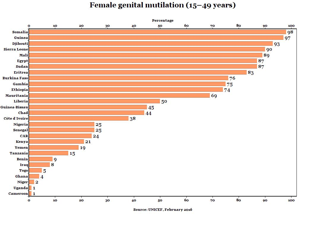 Percentage of girls and women aged 15 to 49 years who have undergone female genital mutilation, 2004–2015, as reported by UNICEF in February 2016. The percentages are for 29 countries for which national figures are available. Note that national figures are available for the 0–11 age group in Indonesia, but not for the 15–49 group. UNICEF 2016: "An older source had to be used to report on the prevalence of FGM/C among girls and women aged 15 to 49 years for Somalia (MICS 2006) since the 2011 MICS was conducted separately in the two parts of the country: the Northeast Zone (also referred to as Puntland) and Somaliland. Prevalence data on FGM/C for girls and women aged 15 to 49 are not available for Indonesia. ... Prevalence data on FGM/C for girls and women aged 15 to 49 years for Ethiopia are from a different source than data on FGM/C for girls aged 0 to 14 years."